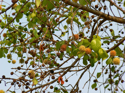 Kadamb tree close up view